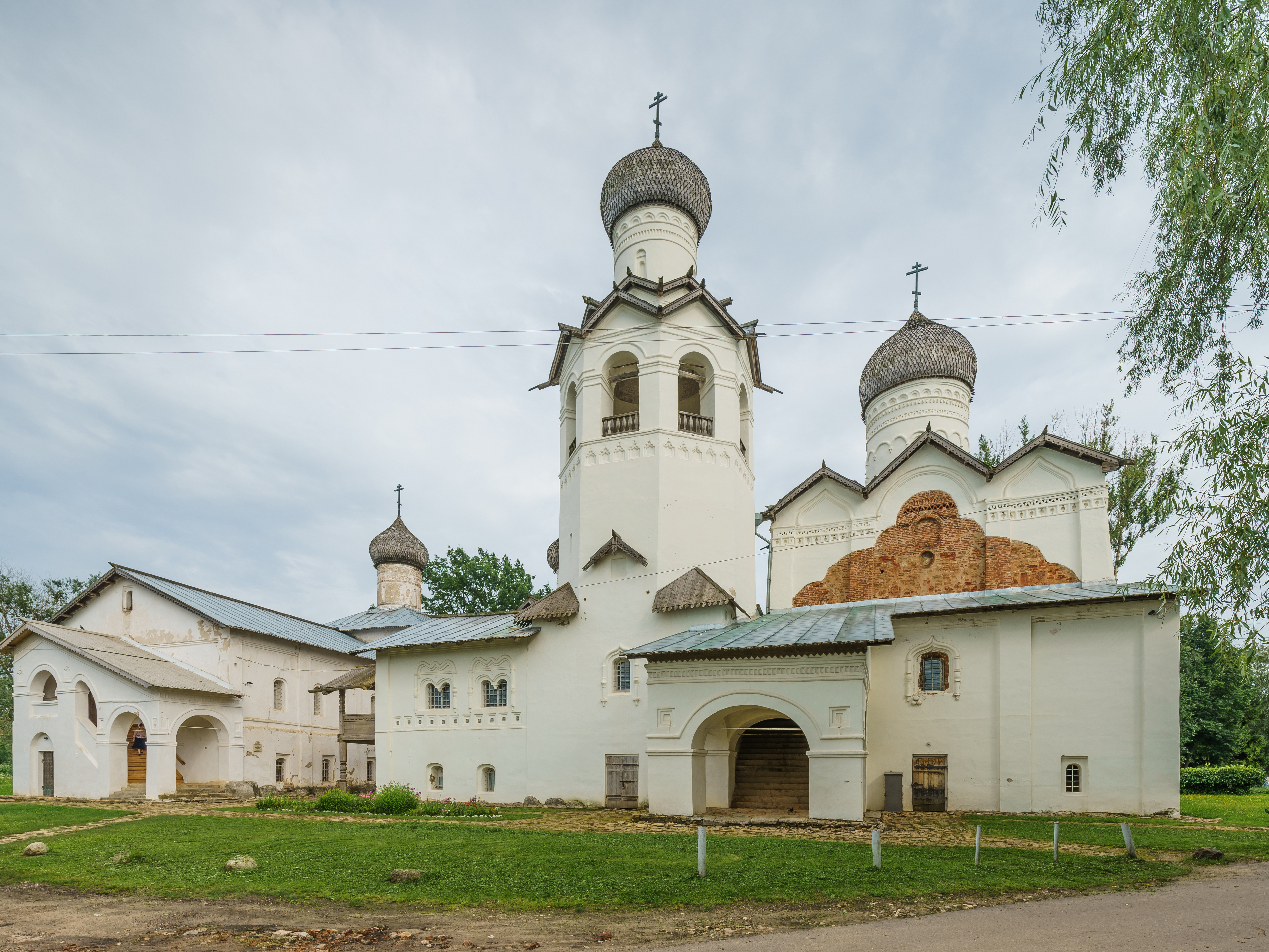 Former Spaso-Preobrazhensky Monastery in Staraya Russa, Novgorod Oblast, Russia